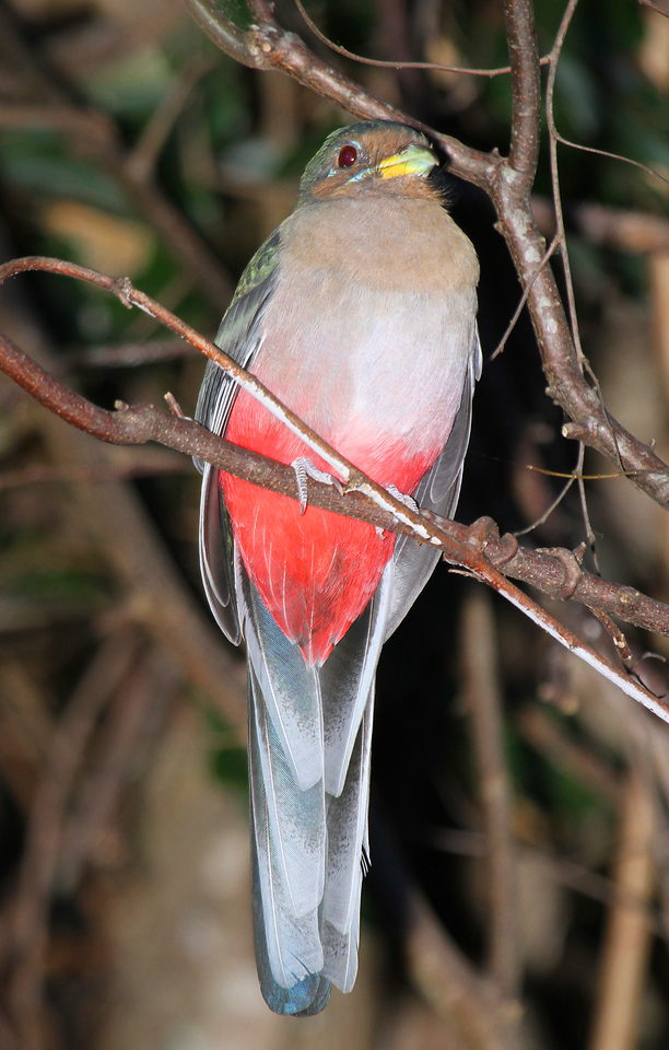 Narina Trogon, Apaloderma narina FEMALE at Lekgalameetse Provincial Reserve, Limpopo, South Africa